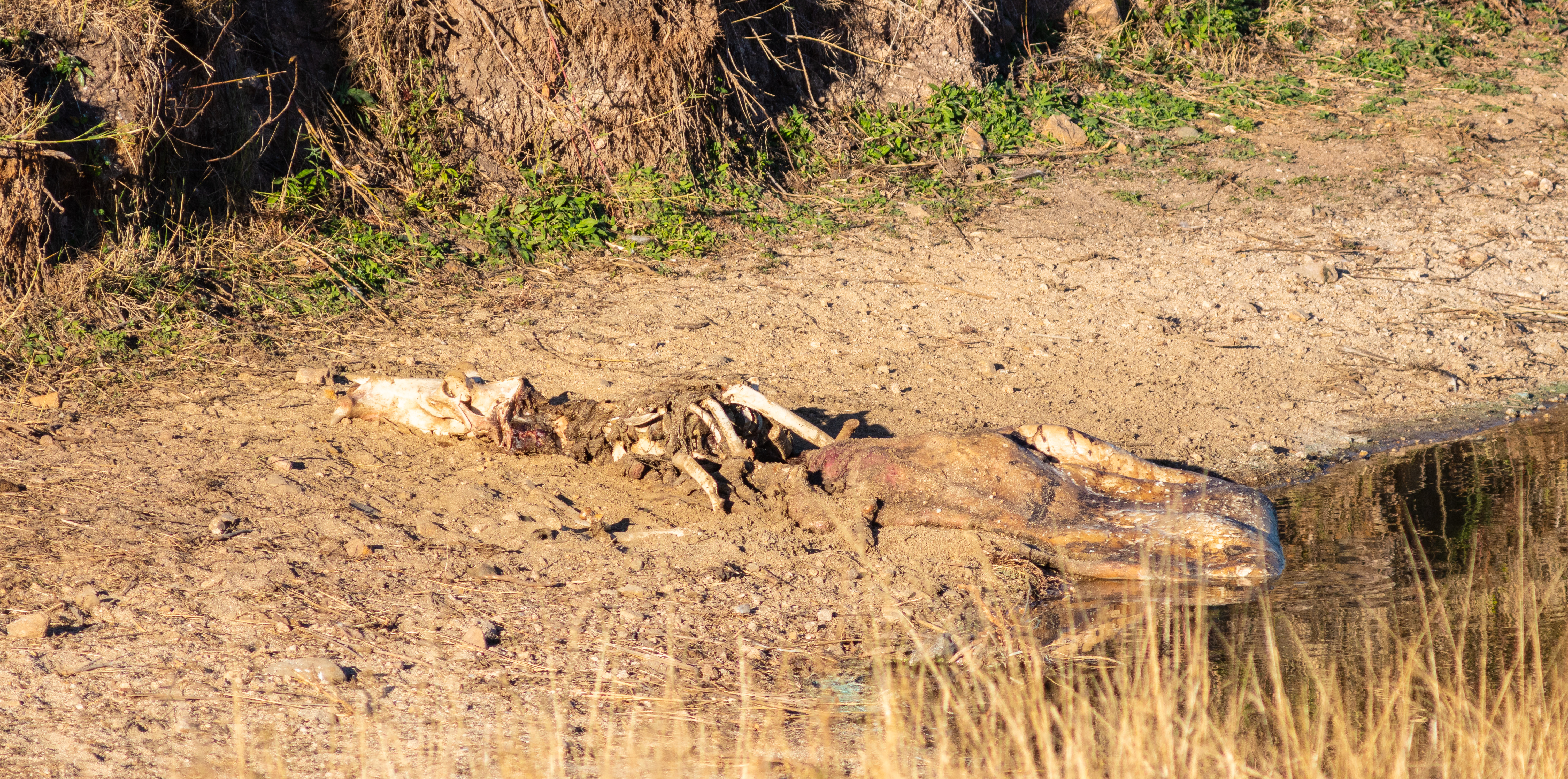 Decomposing Burchell's zebra (Equus quagga burchellii), Kruger National Park, South Africa